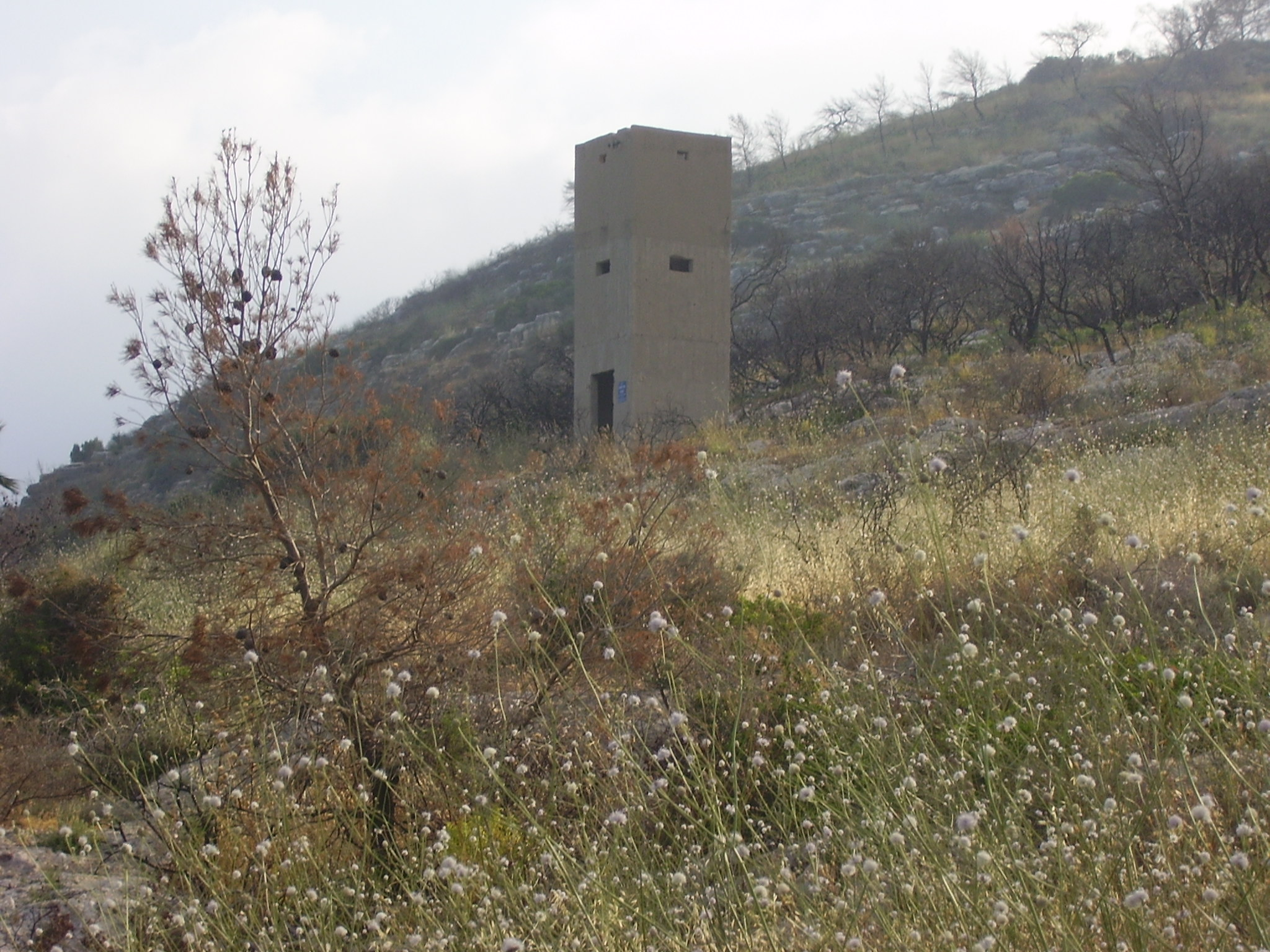 Atlit Detention Camp